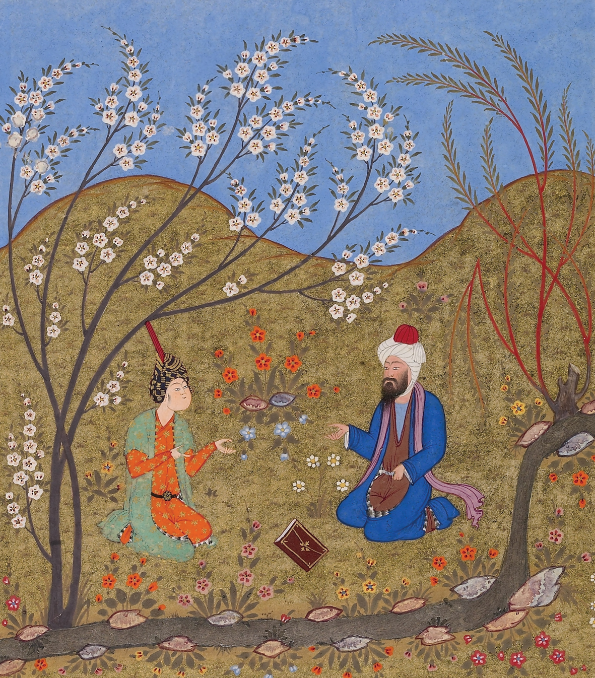 "The mystic Ahmad Ghazali, talking to a disciple", Persian miniature from the manuscript "Majalis al-Ushshaq" ("Meetings of the lovers"), 1552.